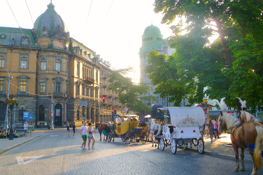 Svobody Avenue in Lviv